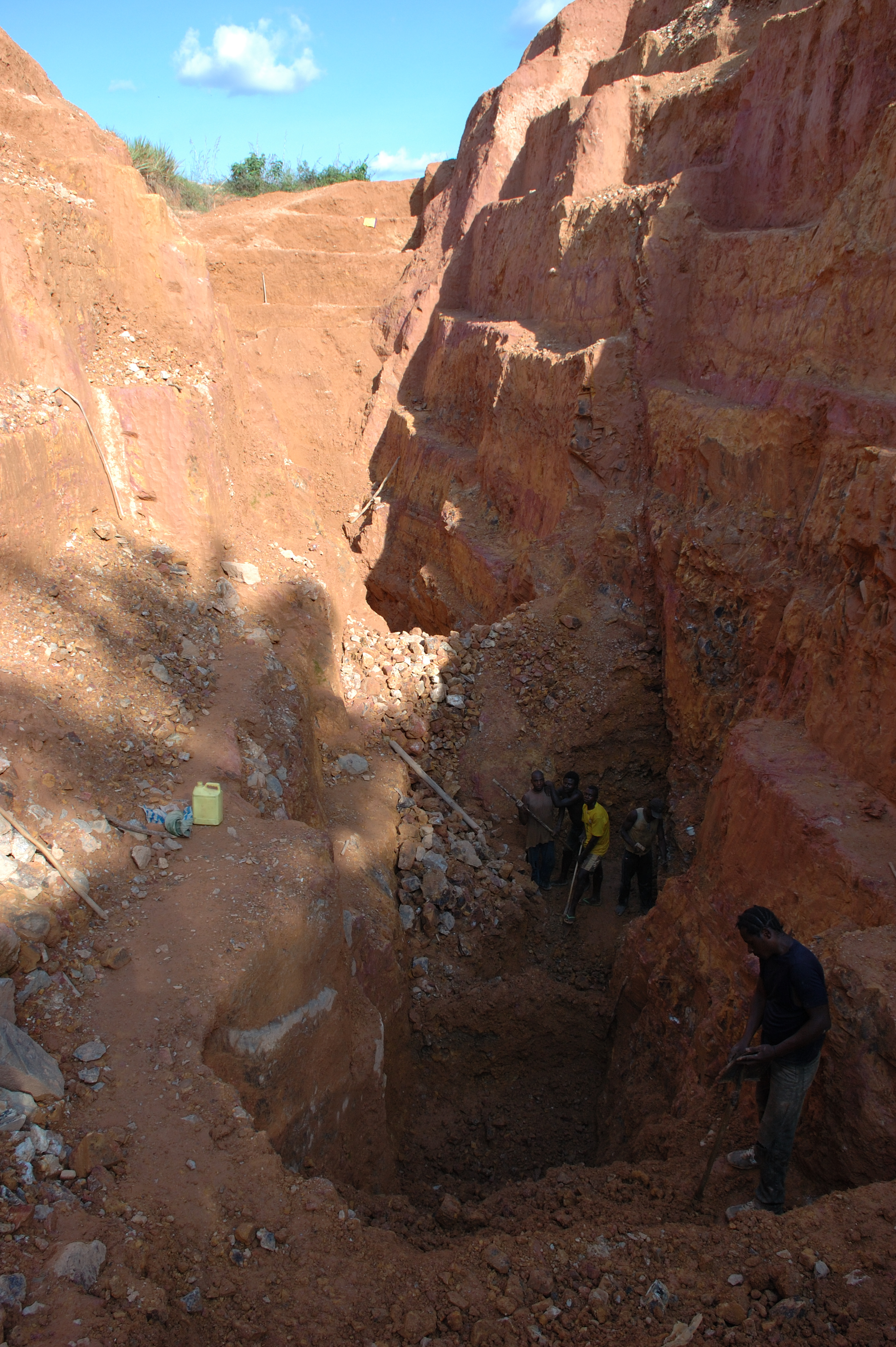 Wolframite and Casserite mining in the Democratic Republic of the Congo.